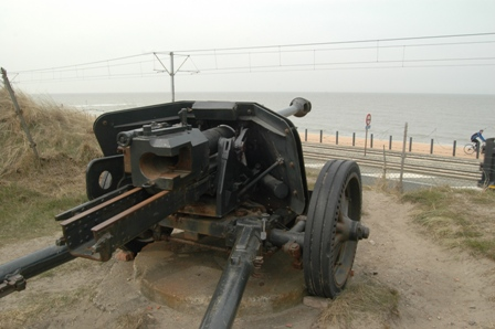 A German 7,5cm PaK 40 anti-tank gun (7,5cm Panzerabwehrkanone 40), Atlantik wall.